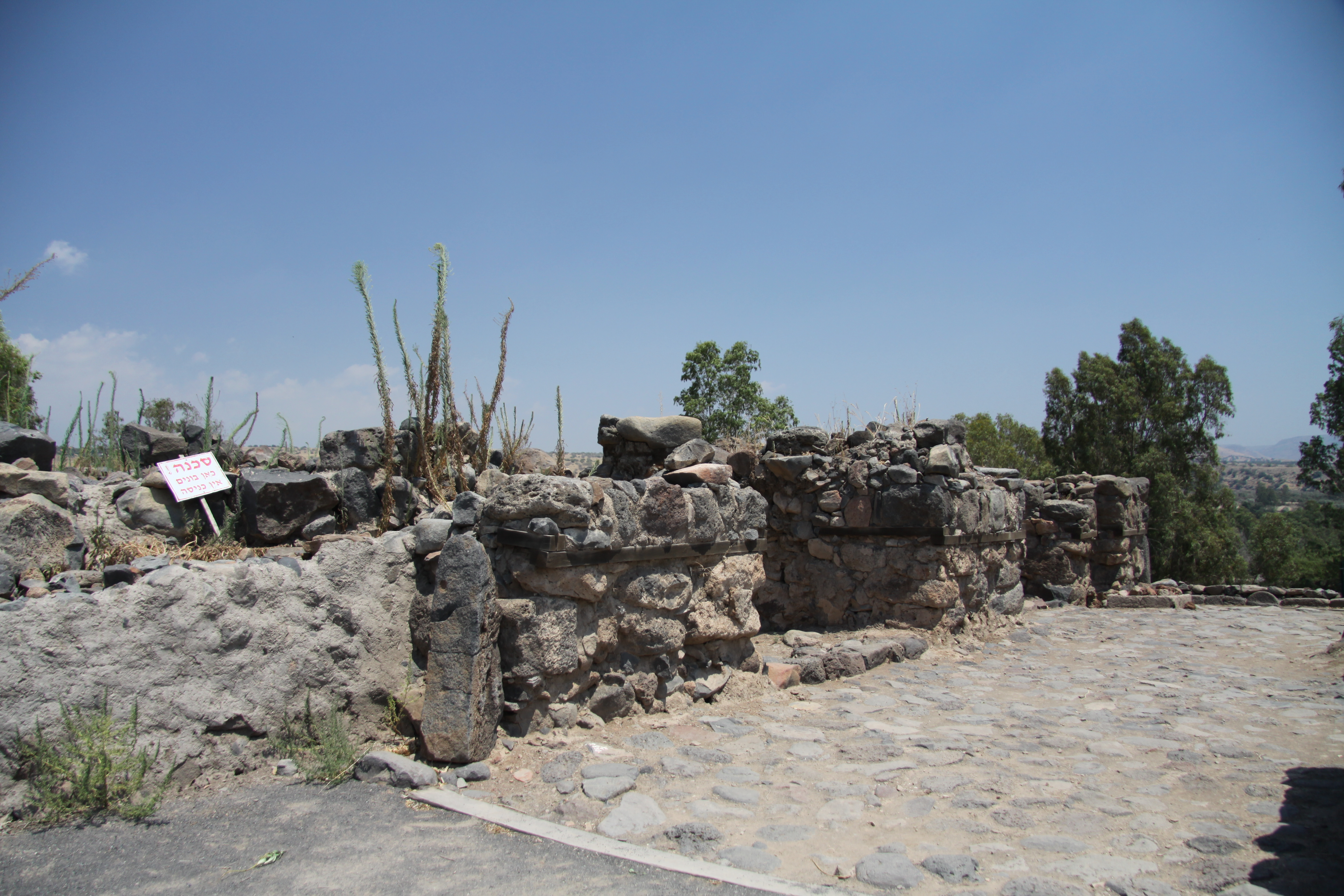 Ruins of fishing village Bethsaida meantiond in New Testament of Bible, northern from Sea of Galilee, Israel